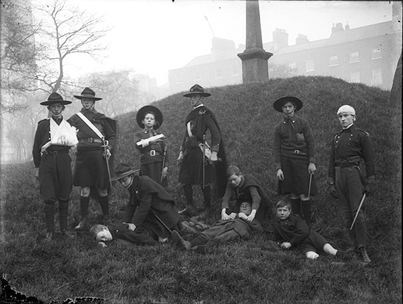 These boys are Fianna Éireann scouts engaged in field medical training. Countess Markievicz (Constance Gore-Booth) founded Fianna Éireann in 1909. Does anyone recognise this hillock? From the buildings behind, would imagine this was taken in one of Dublin's Georgian squares, but which one? Date: Circa 1914 NLI Ref.: Ke 210